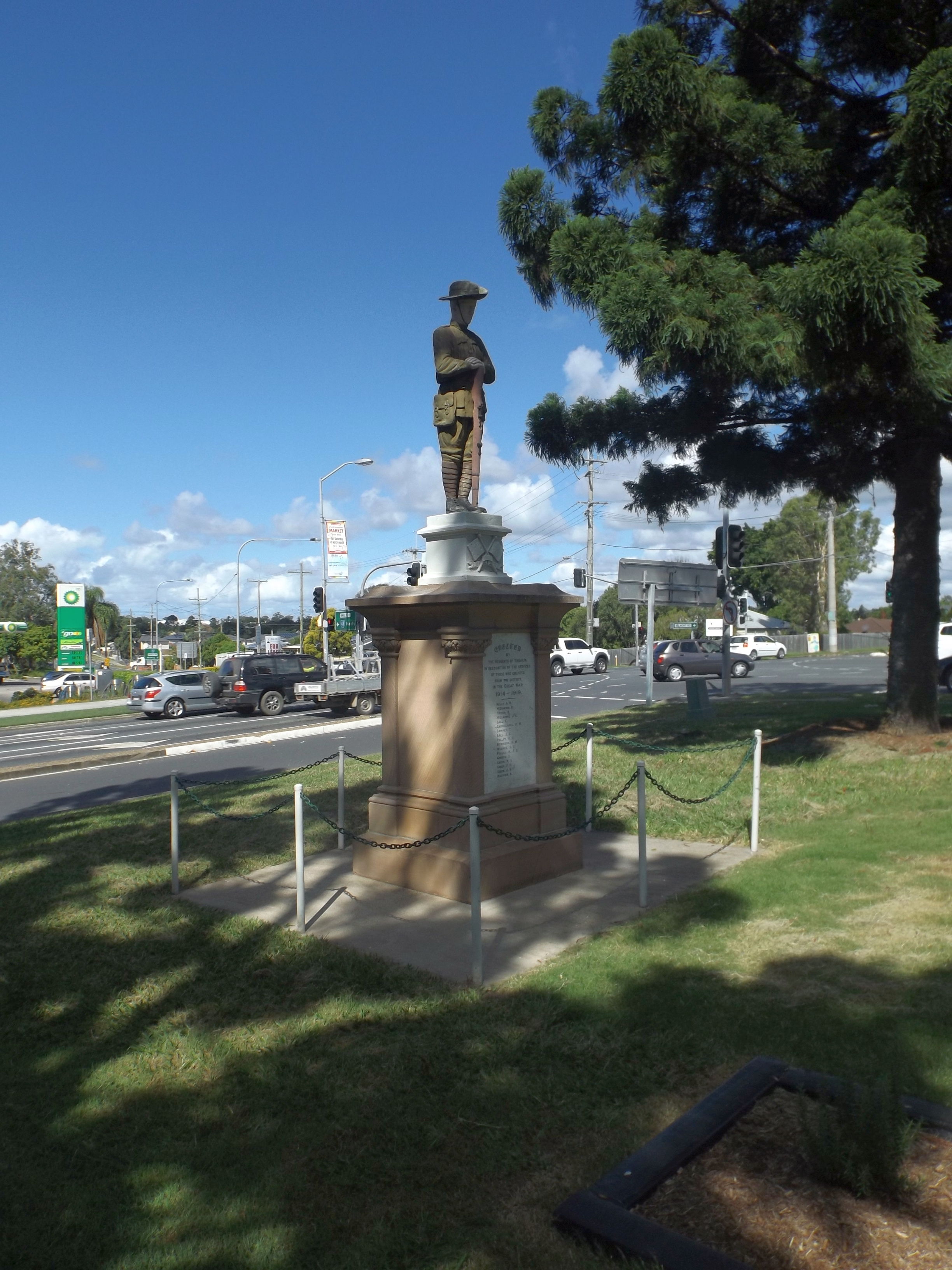 Photo of Tingalpa war memorial at Tingalpa, Brisbane, Queensland, Australia.